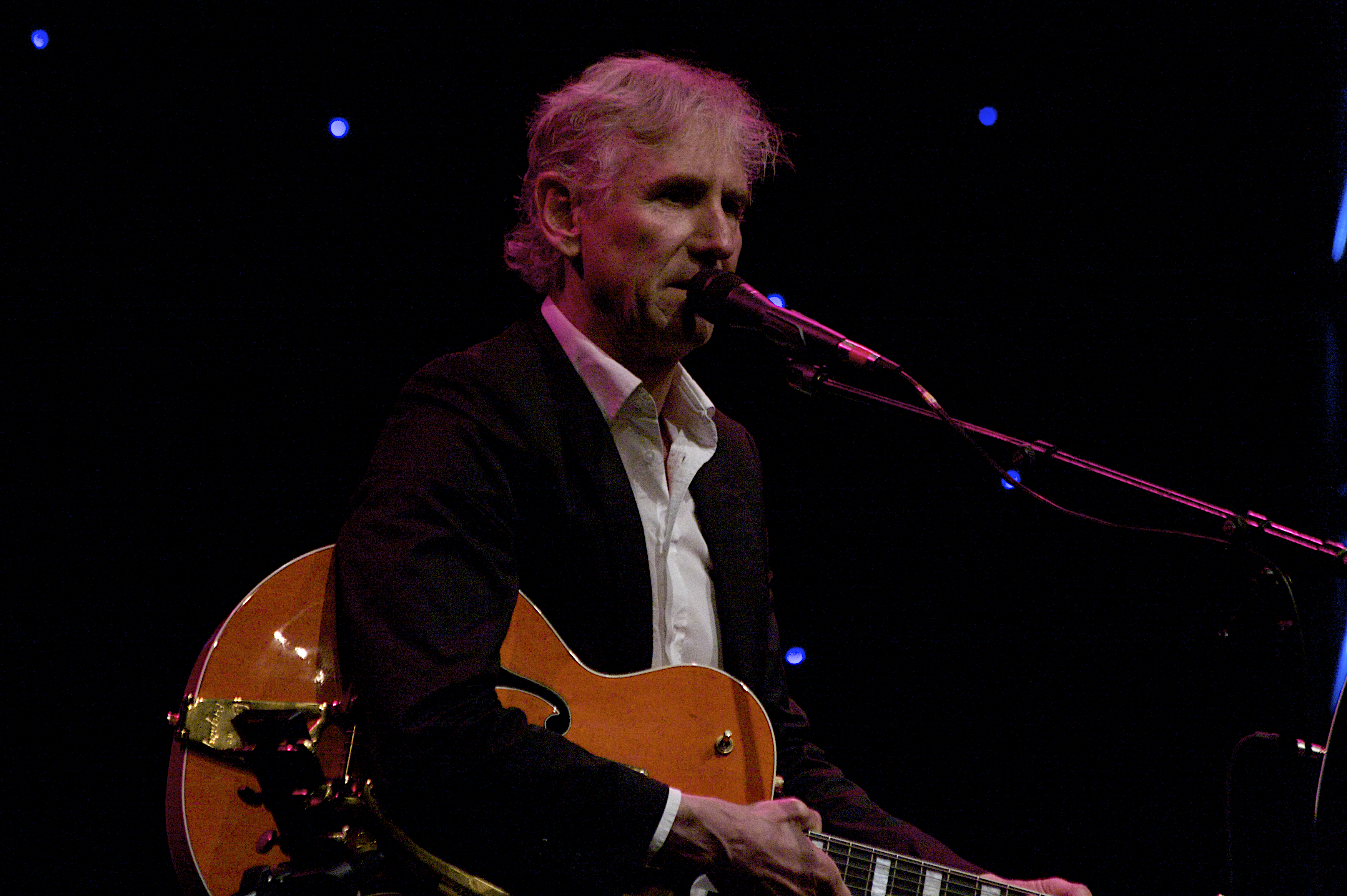 Danish singer/songwriter Steffen Brandt.